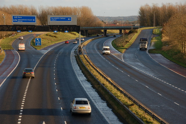 The M1 near Moira (2). See 195740 and 1638243. This is the view towards the former from the Station Road bridge near Moira. The sliproad to the left is used by traffic for Moira, Belfast International Airport, the north coast and Larne.